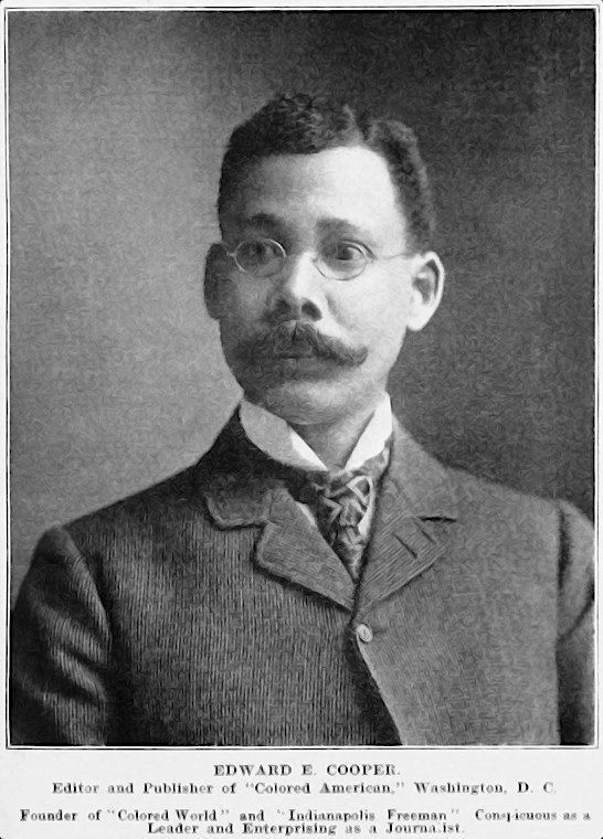 Edward Elder Cooper